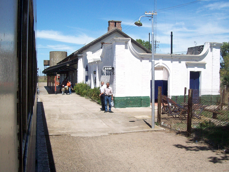 General Guido train station